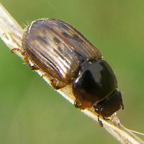 A dung beetle of species Aphodius contaminatus (Coleoptera: Scarabaeidae). ID based on information at the Watford Coleoptera Group.